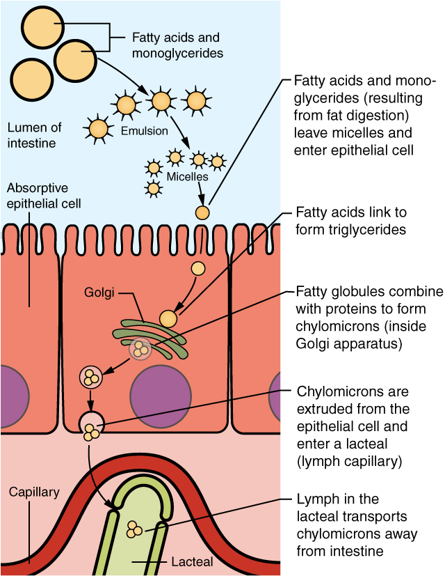 Illustration from Anatomy & Physiology, Connexions Web site. Jun 19, 2013.